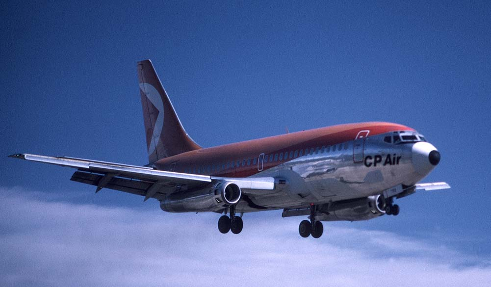 CP Air Boeing 737-200 on final approach at Whitehorse, Yukon, Canada. Taken with a 400 mm telephoto lens on Kodachrome 35mm colour slide film.